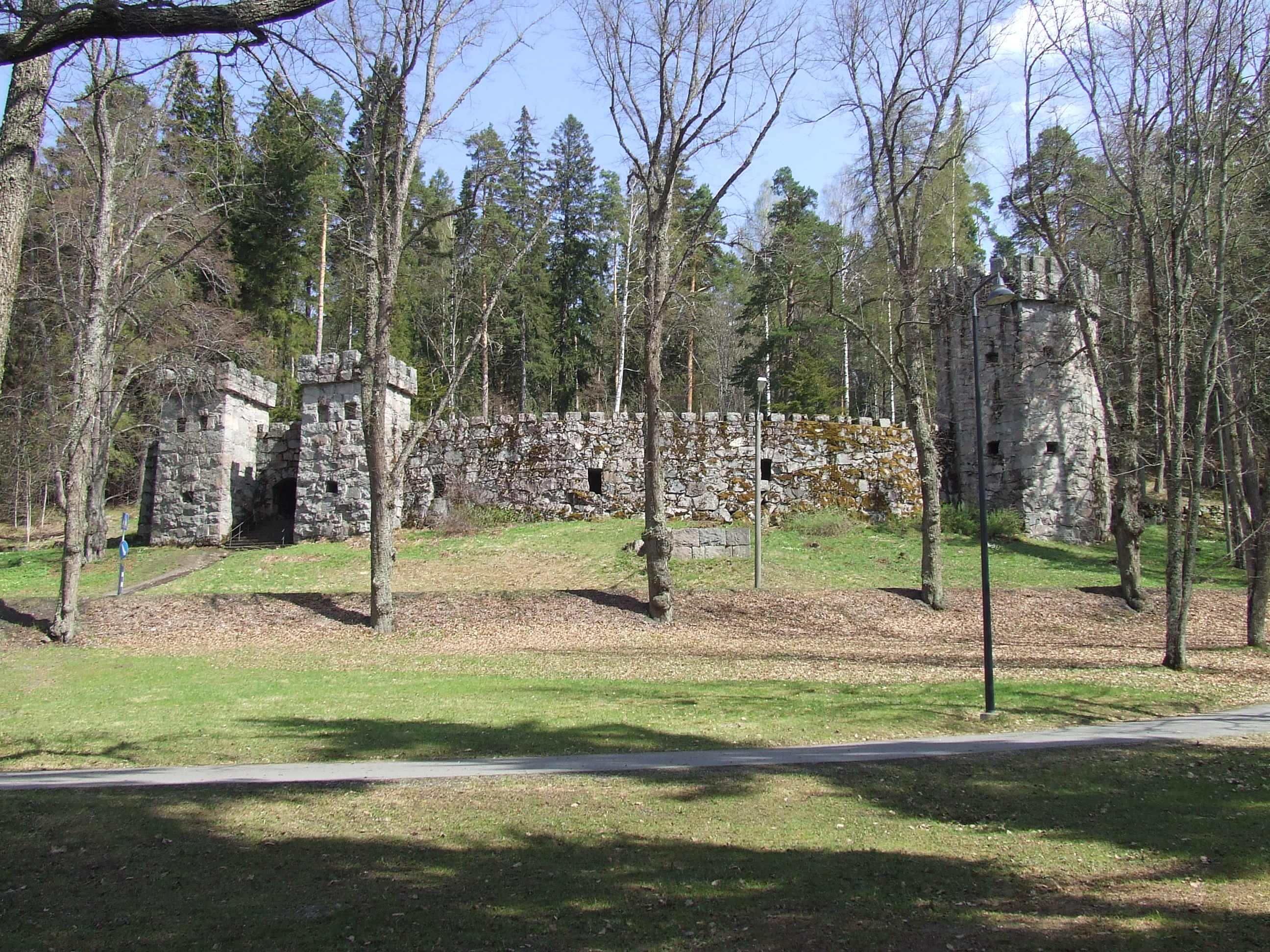 Artificial castle ruins in Aulanko, Hämeenlinna, Finland.